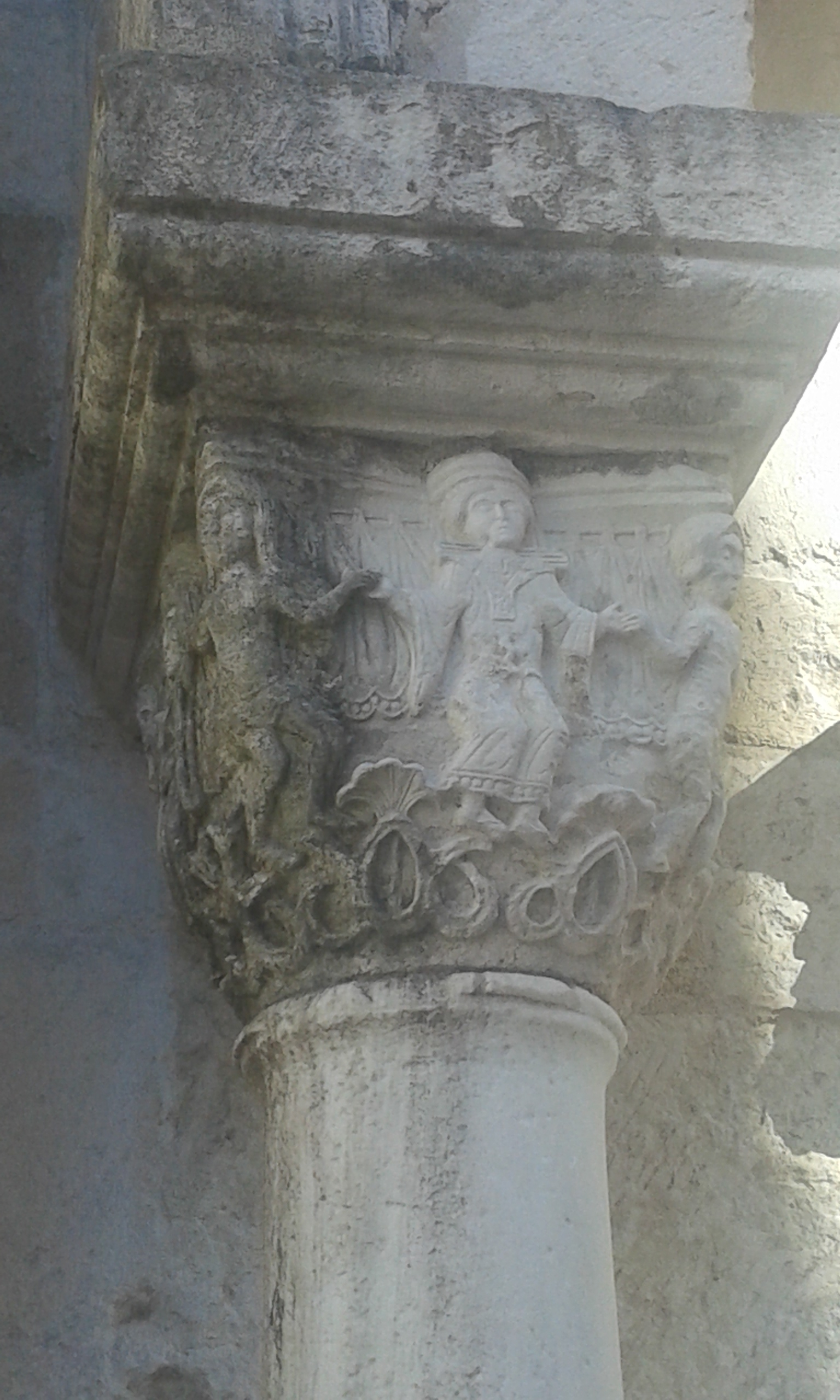 Capitel - external column on the left